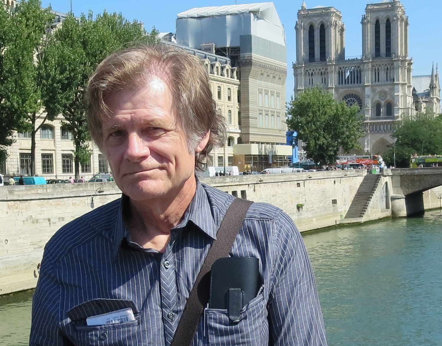 John Olson in Paris